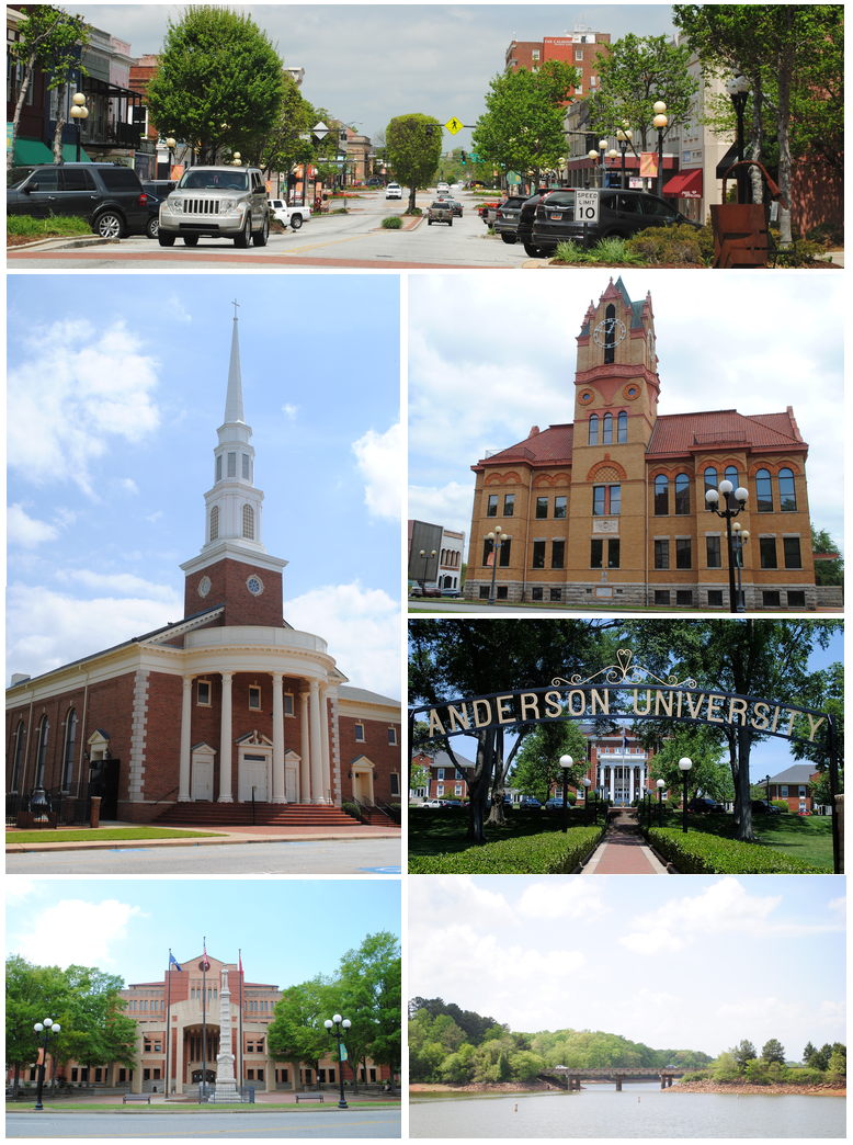 Photos I took around Anderson, South Carolina